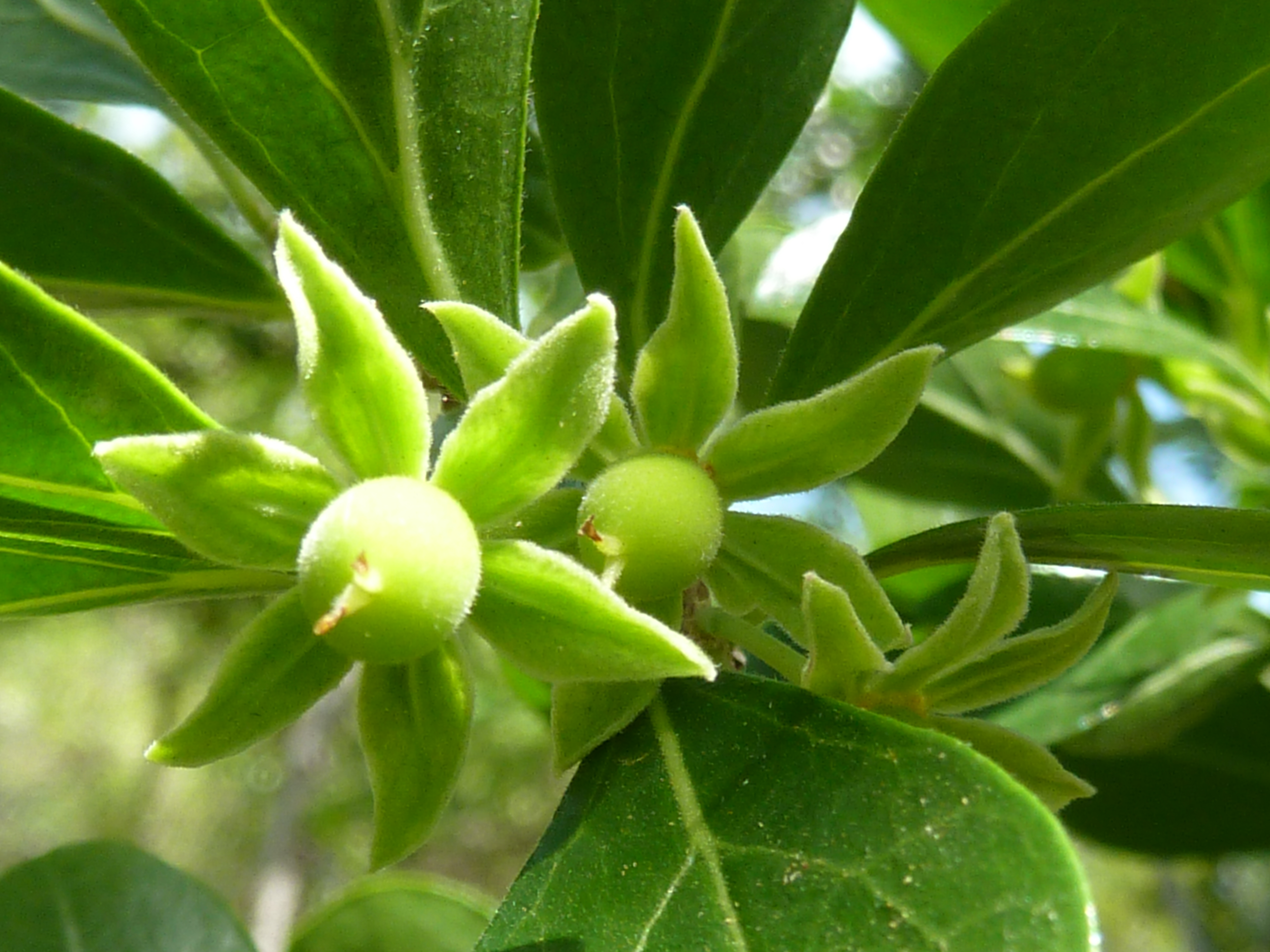 Young, green fruit of a Wild apricot at Seringveld near Pretoria, South Africa. Note the large calyx which enveloped the numerous stamens and remnants of two styles.